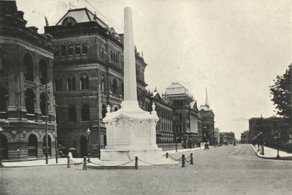 This Monument was erected by Mr. J. L. Holwell, the principal survivor of the Black Hole tragedy.